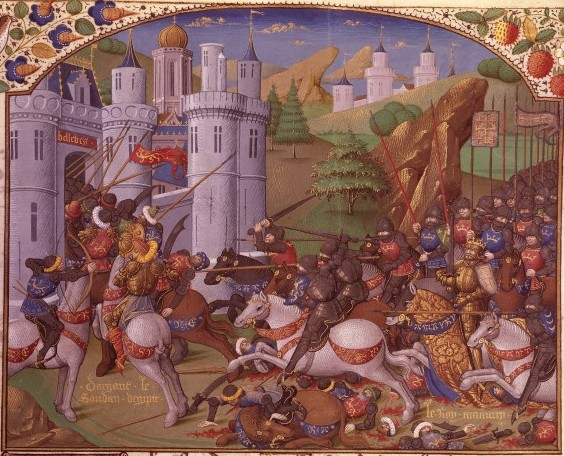 Miniature: flight of Dirgham at Pelusium